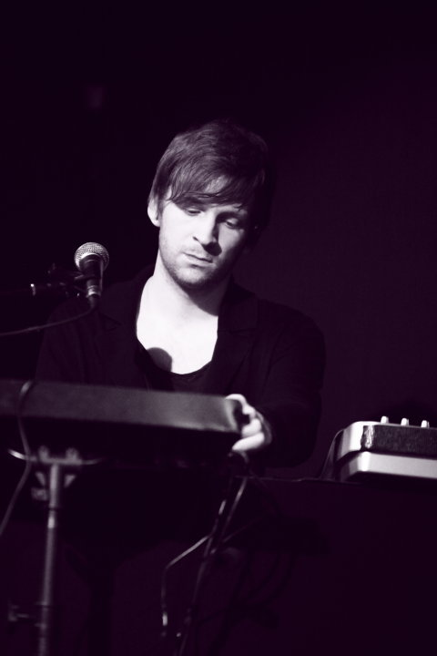 Olafur Arnalds